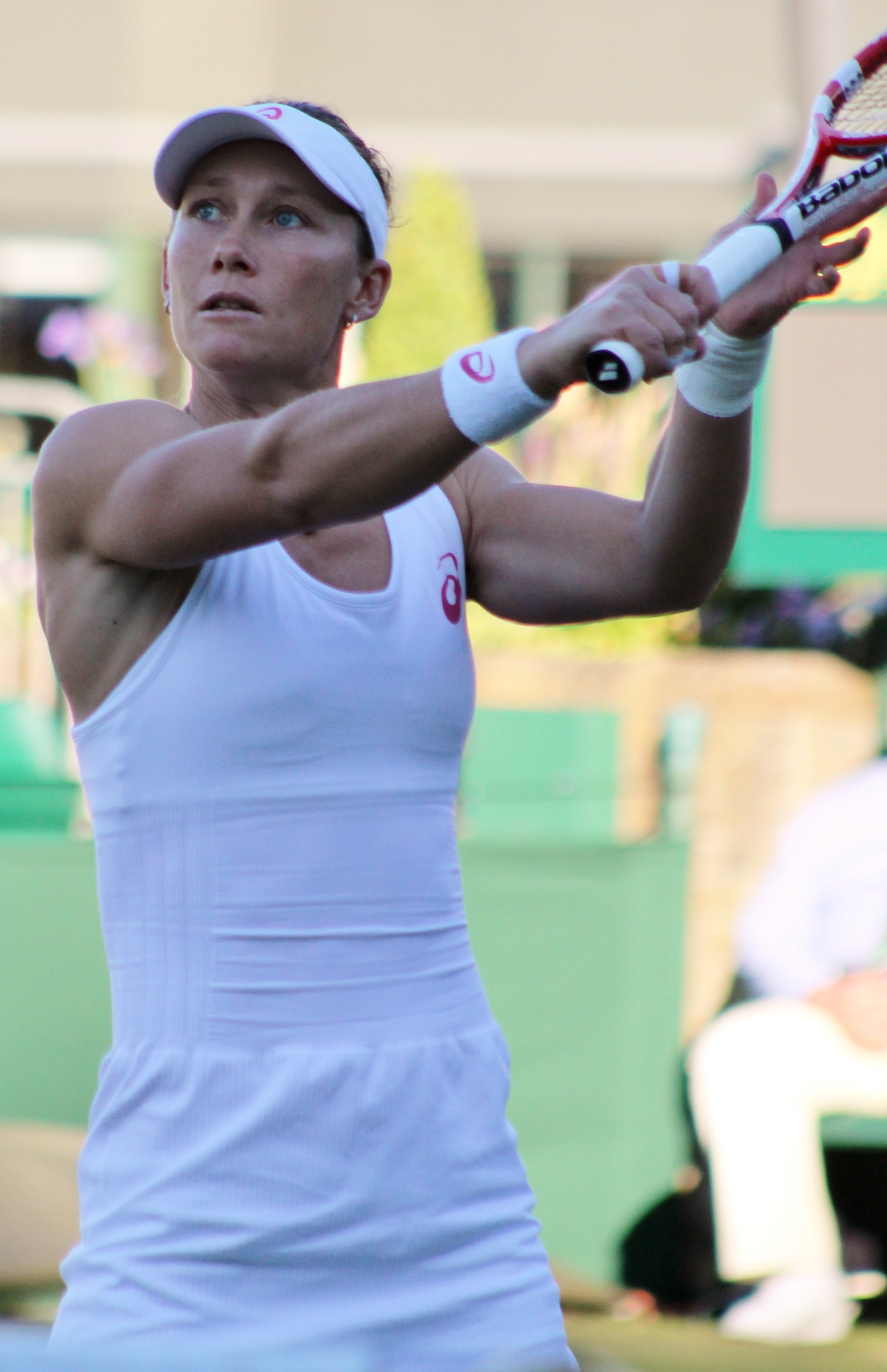 Stosur WM14 (13)